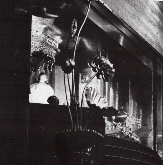 The 66th High Priest of the Head Temple, Nittatsu Shonin cleaning the Dai Gohonzon during the April Omushibarai ceremony in 1969. In the old Hoanden building.